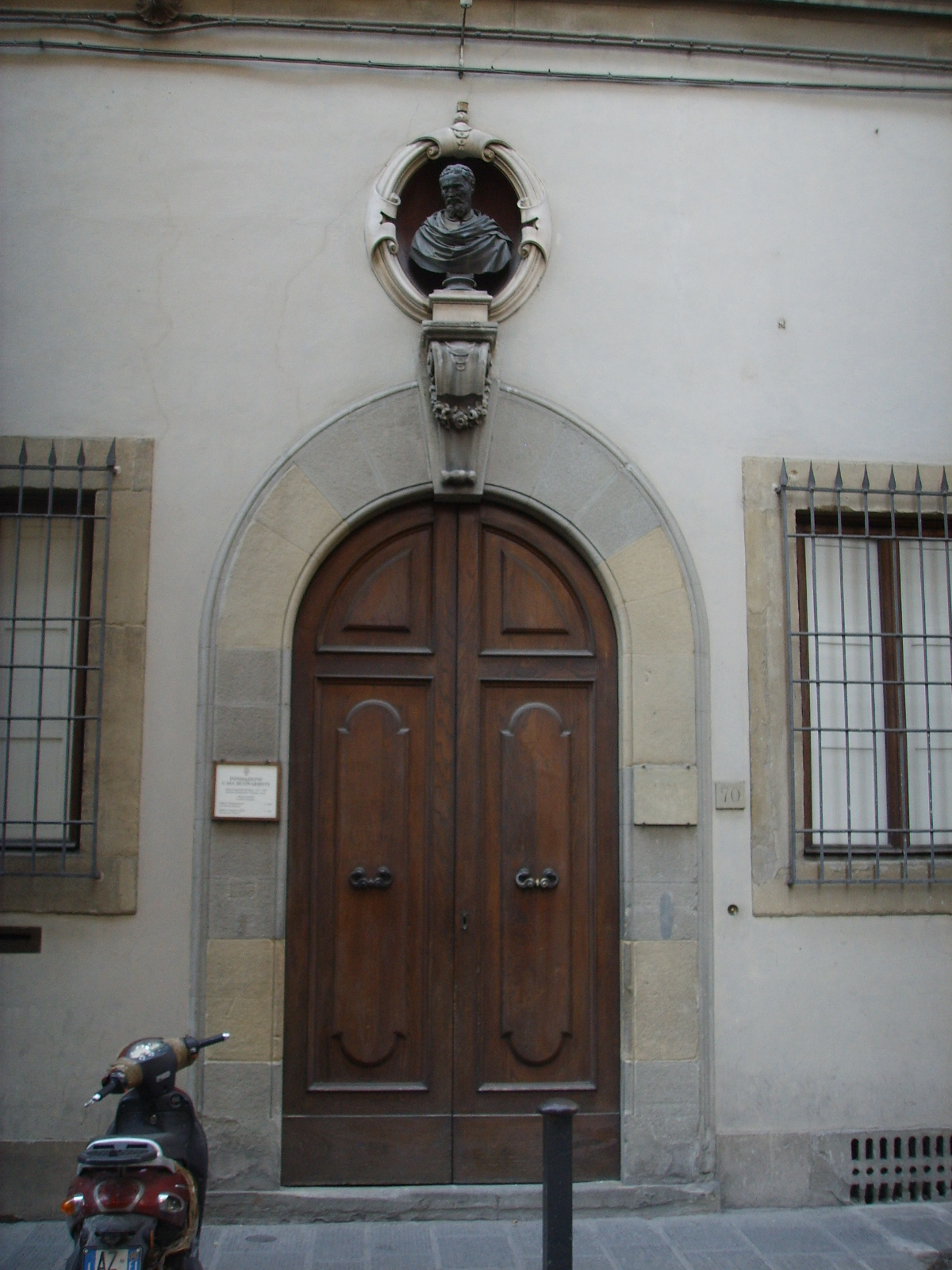 Casa Buonarroti in Florence is a museum, housed in the building Michelangelo Buonarroti built for himself and his relatives, later transformed by his nephew Michelangelo Buonarroti the Younger into a museum-sacrarium for his famous uncle. A portrait of Michelangelo can be seen in this picture in the oval niche above the door.